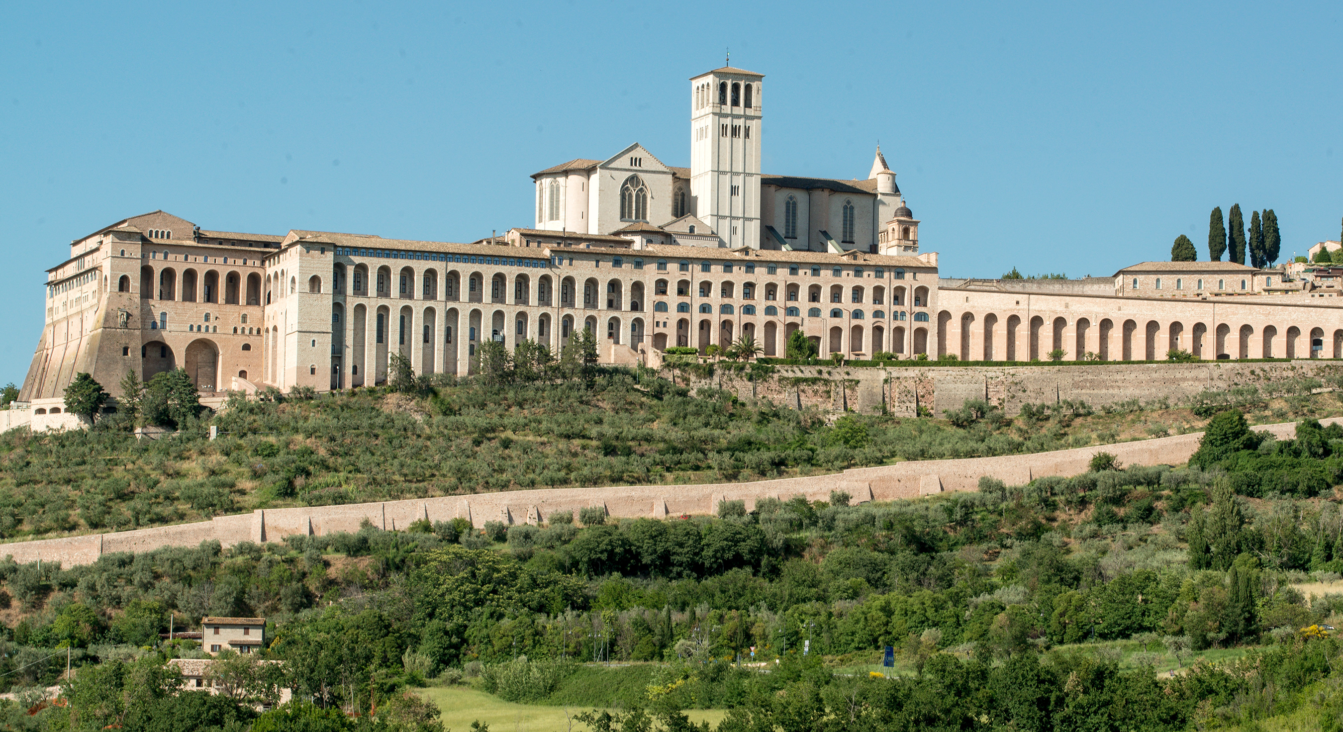 Looking up from the road below the town